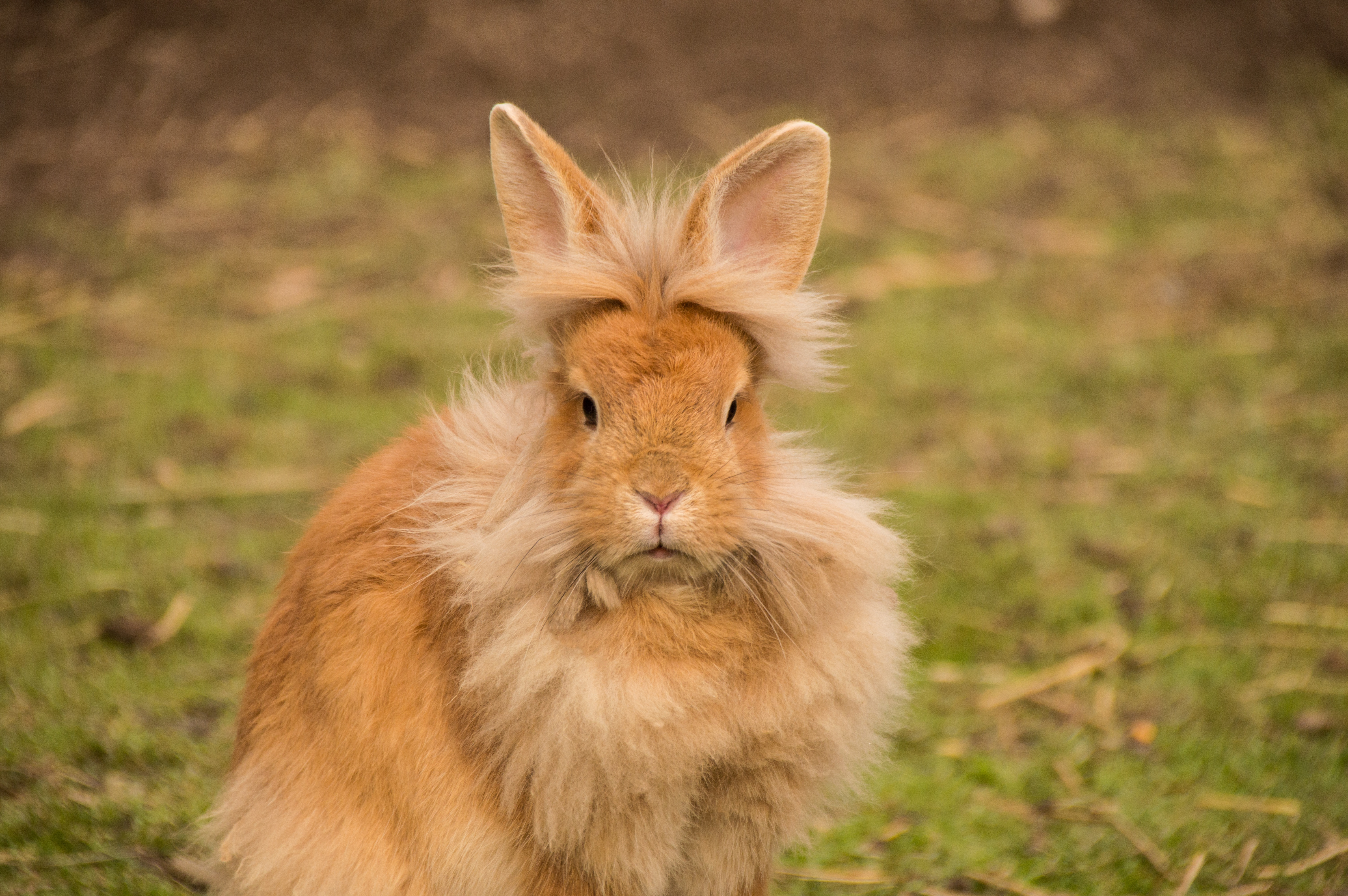 Rabbit - Lionhead breed - fawn color variety - adult - erect ears